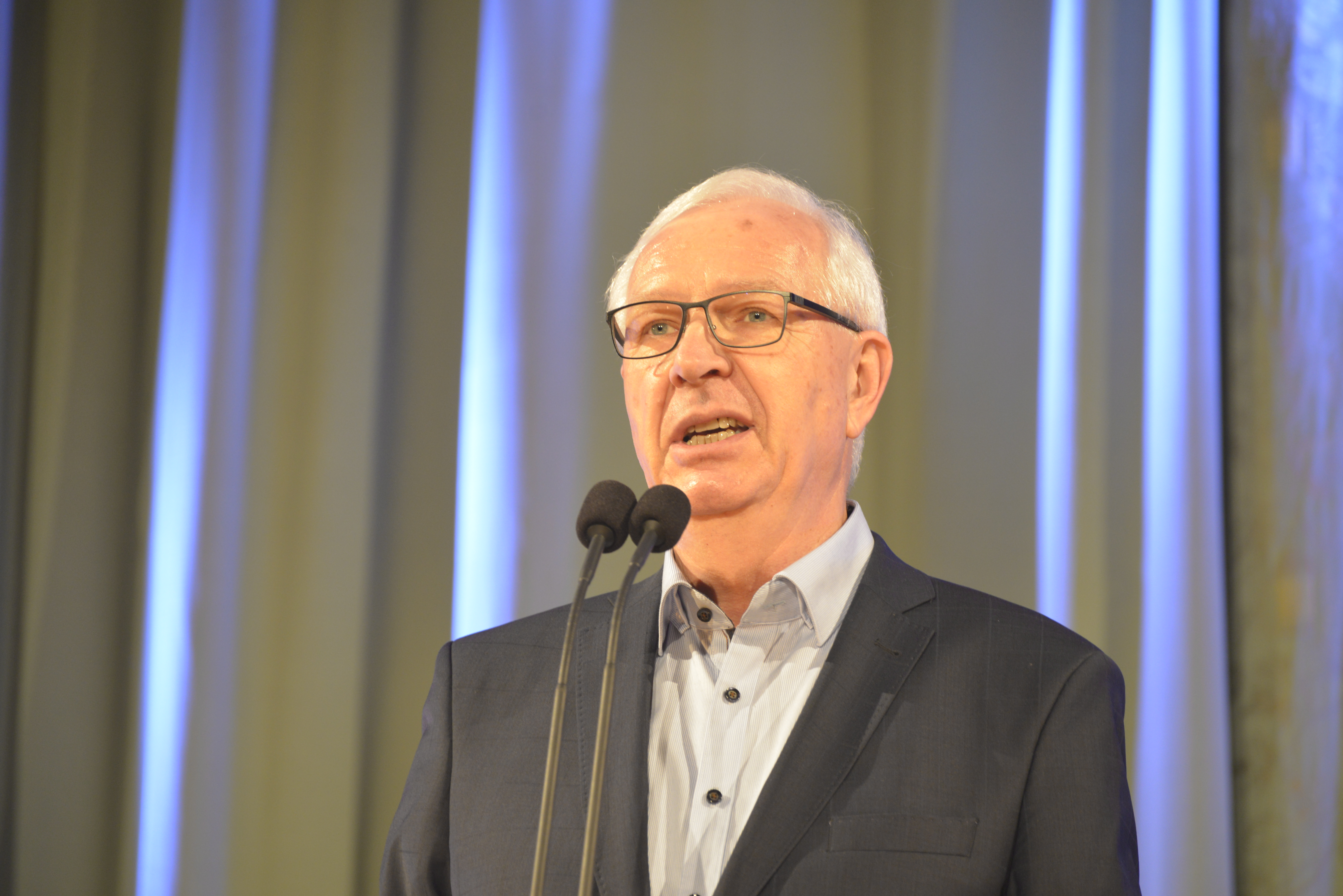 Jiří Drahoš during pre-election meeting in Lucerna cinema